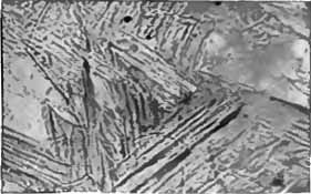 Photomicrograph of martensite Caption: Fig. 14. — (Osmond & Cartaud.) Martensite. Magnified 250 diameters.